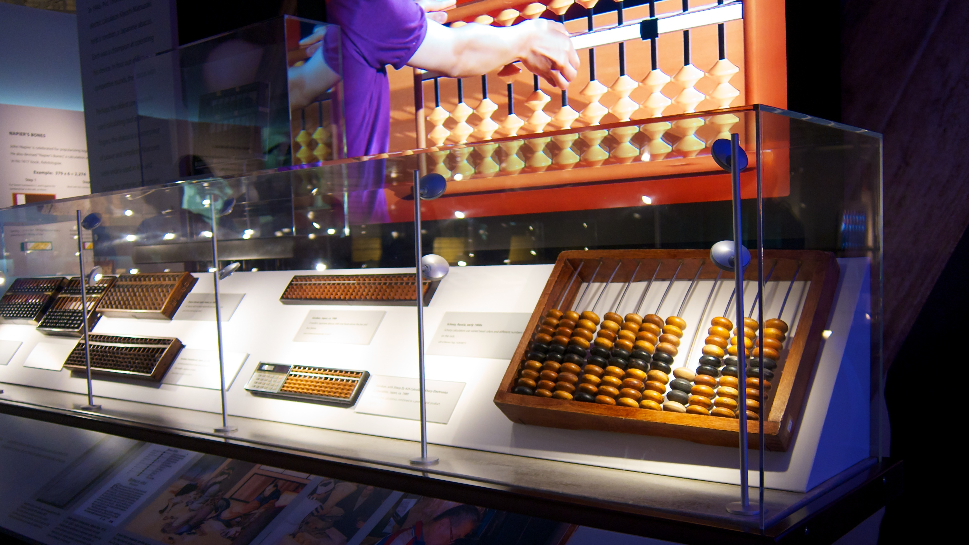 Abacus Display at the Computer History Museum